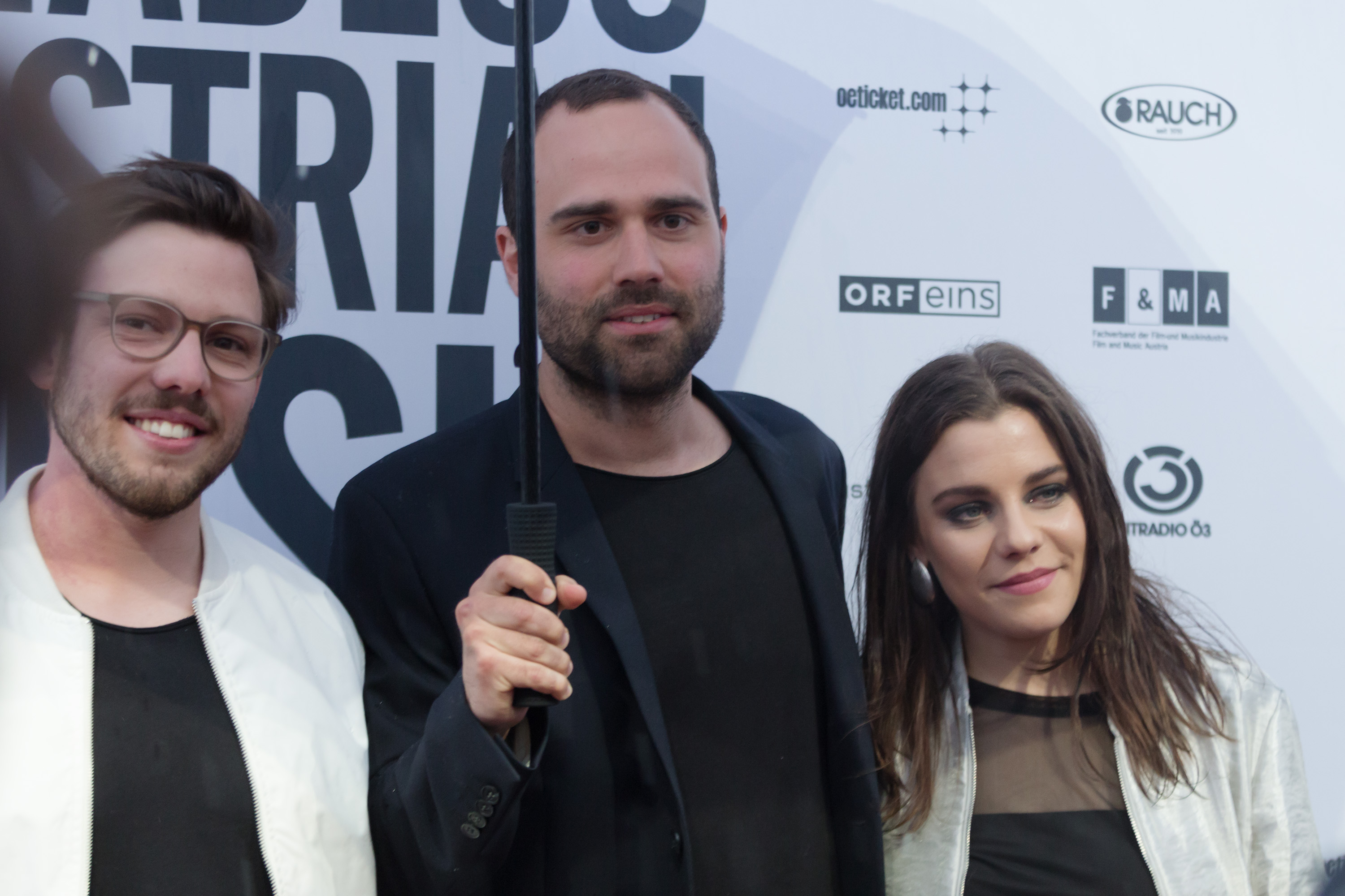 Mynth at the Amadeus Austrian Music Award 2017 at Volkstheater in Vienna.